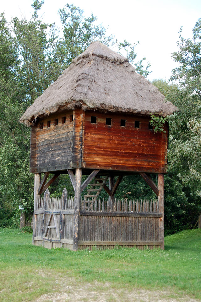 Tschartake (a watchtower, as used during the time of Turk siege of Vienna (17th, 18th century)), reconstructed in 1995, located near Burgau in Styria, Austria